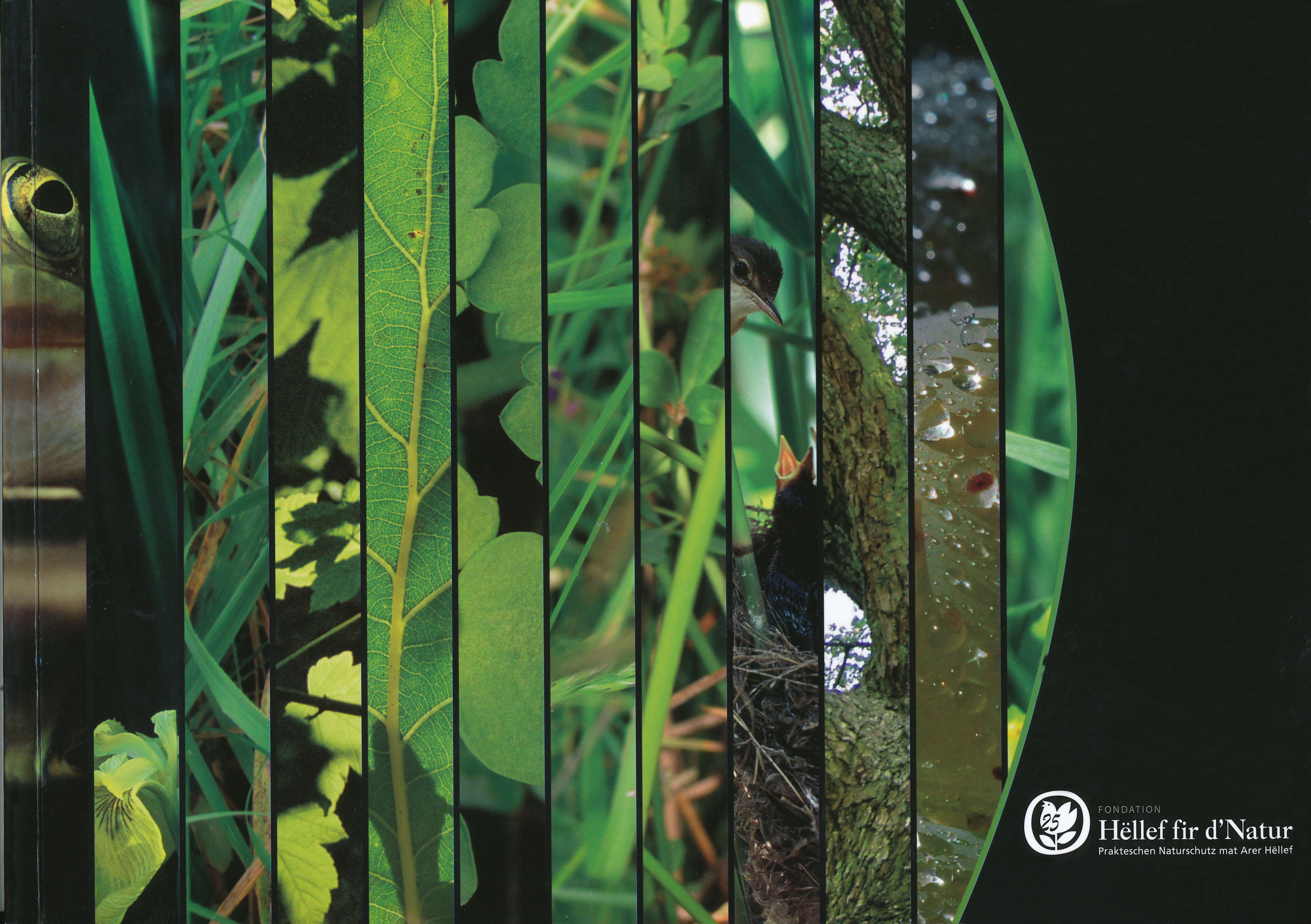 Cover of the book published at the occasion of year 25 of the creation of the Foundation Hëllef fir d'Natur